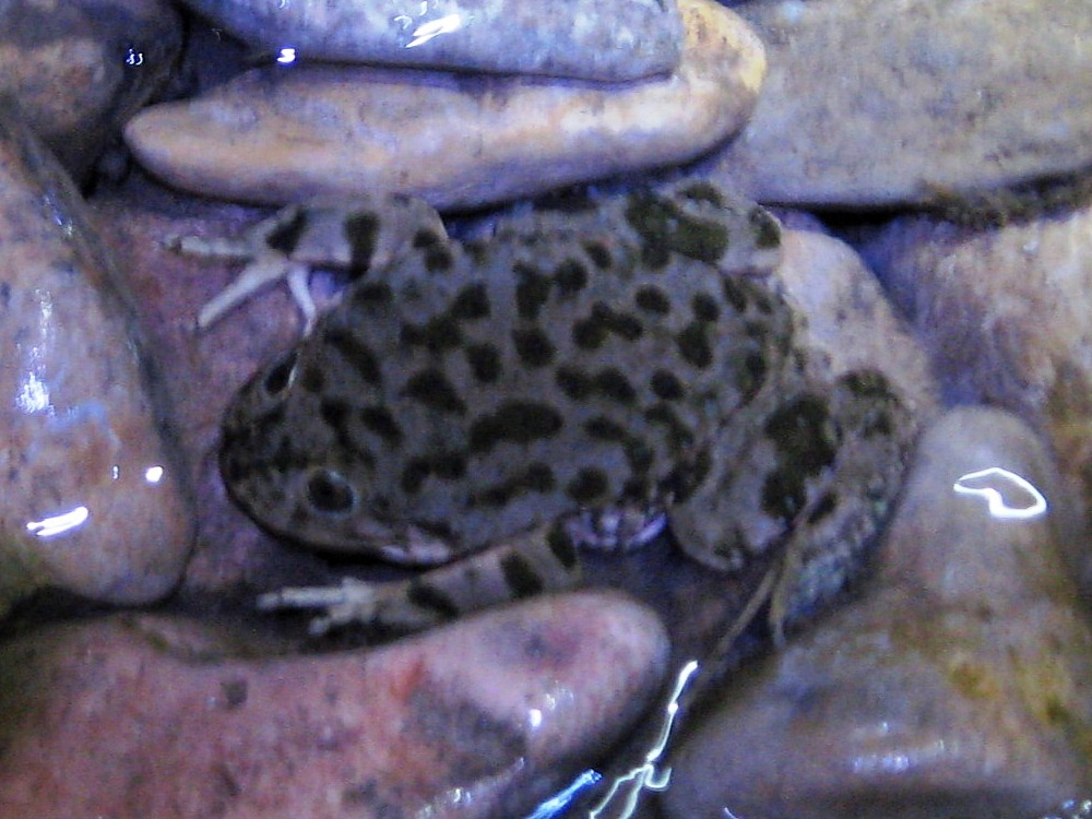 A marbled water frog (Telmatobius marmoratus) in a stream on Isla del Sol, Lake Titicaca, Bolivia.